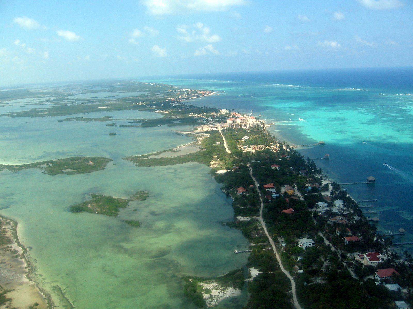 Bird's Eye view of Ambergris Caye - San Pedro and adjacent lagoon